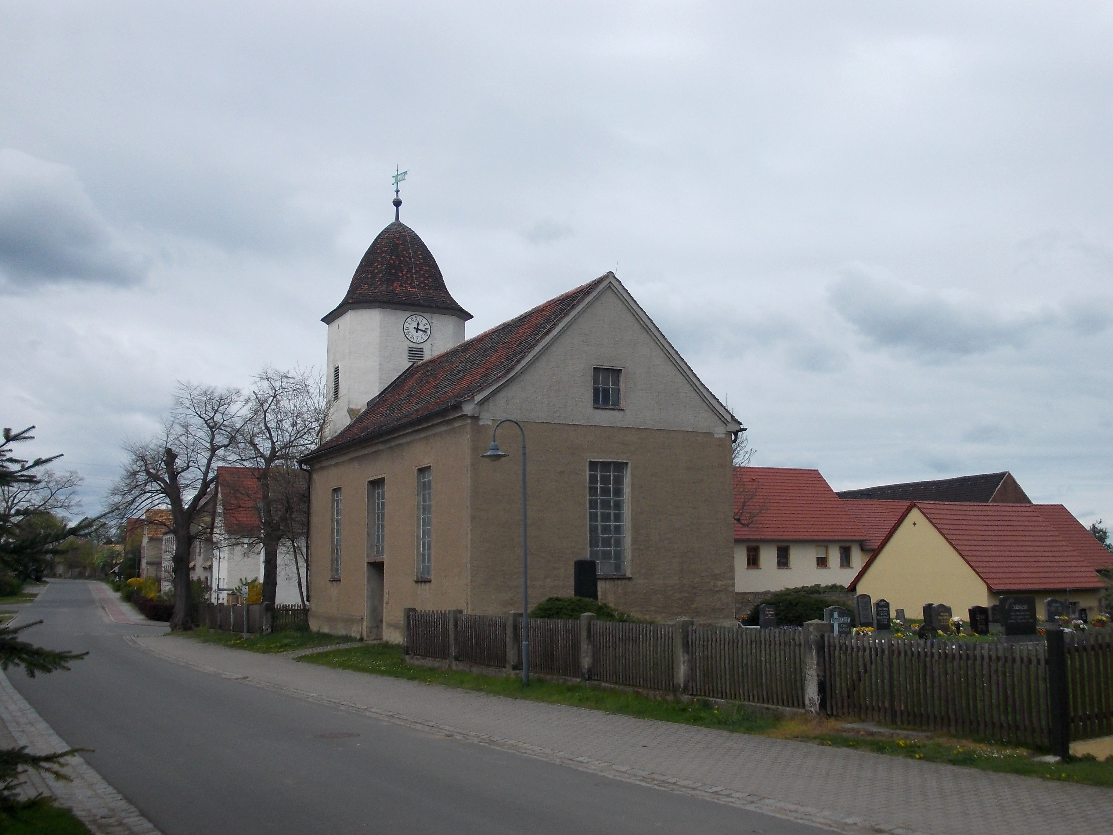 Drebligar church (Elsnig, Nordsachsen district, Saxony)